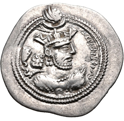 Coin of the Sasanian king Balash, Susa mint.